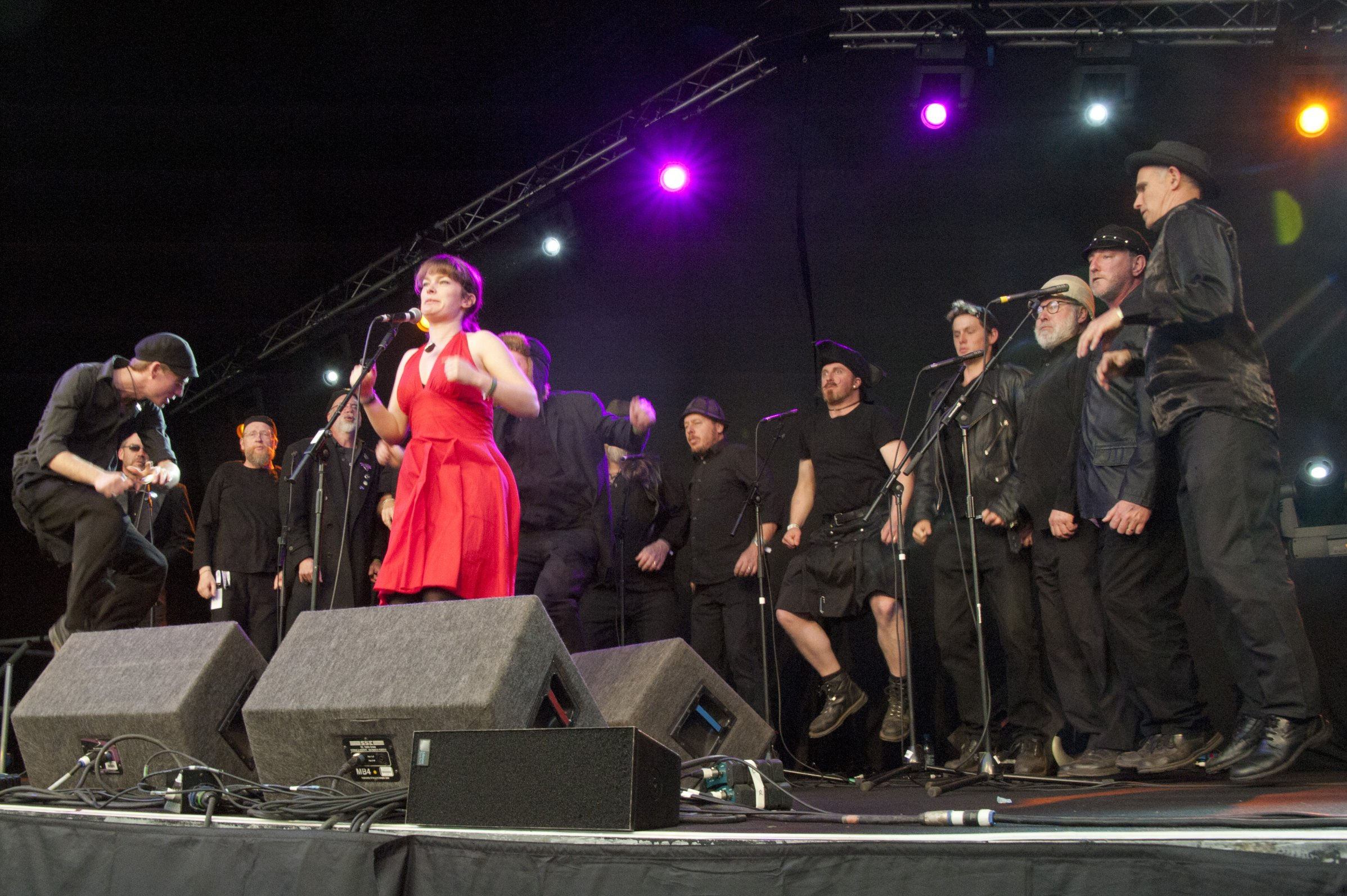 Space rabbits of Brocklevoons, landed in my kitchen because they needed spoons Oh bounce bounce bounce bounce bounce bounce bounce bounce bounce bounce bounce …